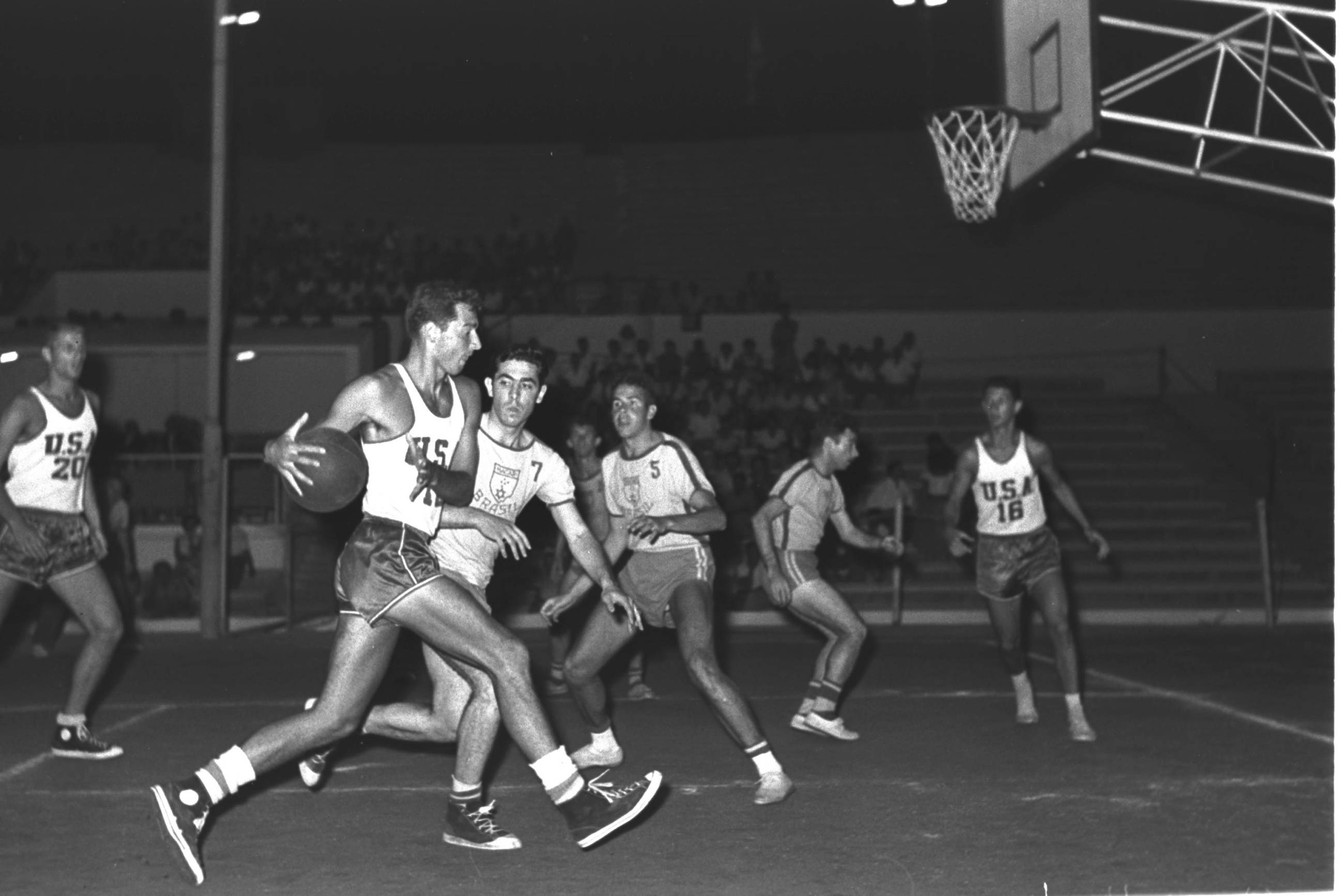 A Basketball game between The United States and Brazil during the 5th Maccabiah. The game took place at the Ramat-Gan Stadium.